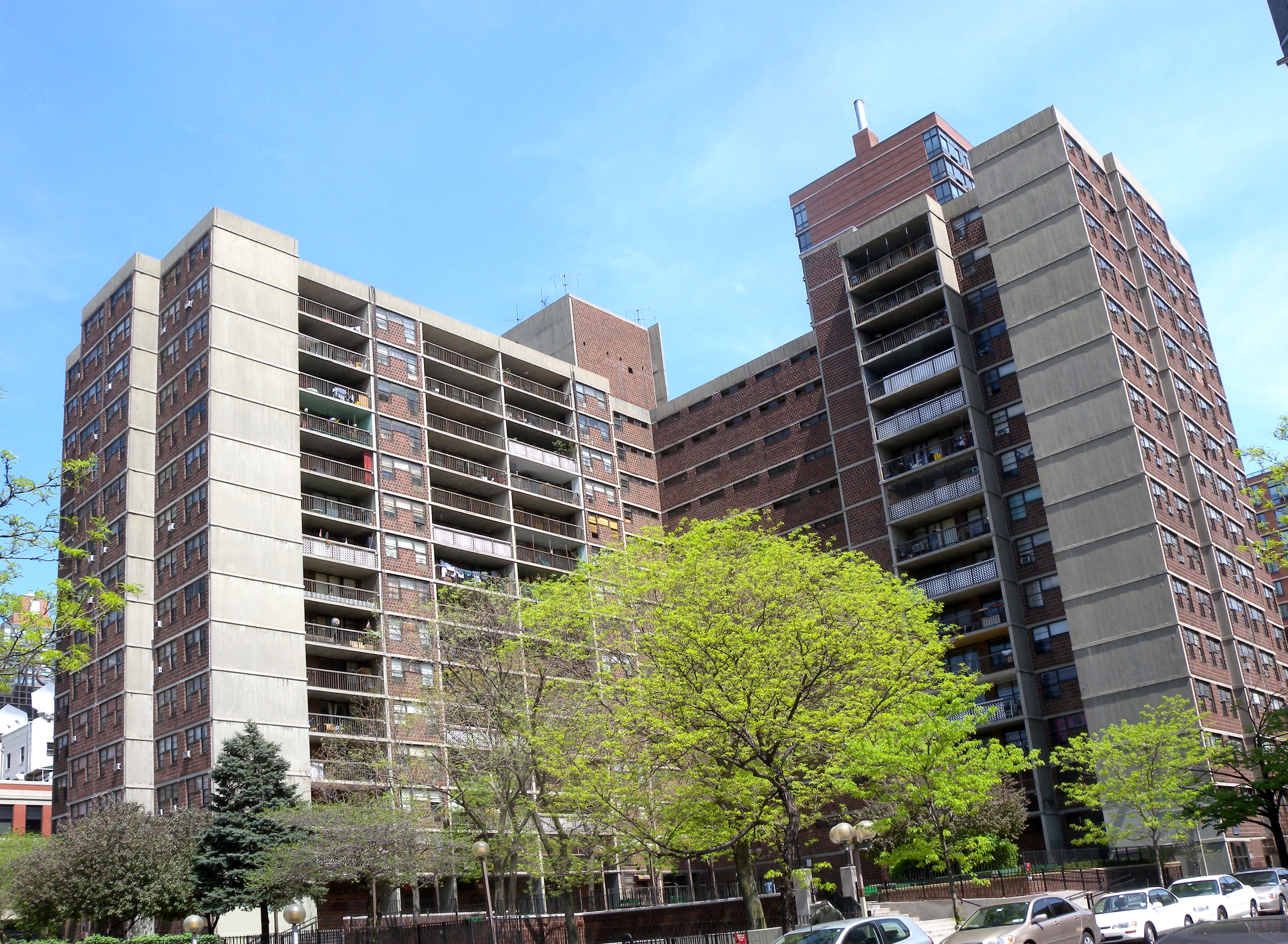 Looking northeast across East 55th Street at Harbor View Terrace on a partly cloudy afternoon.